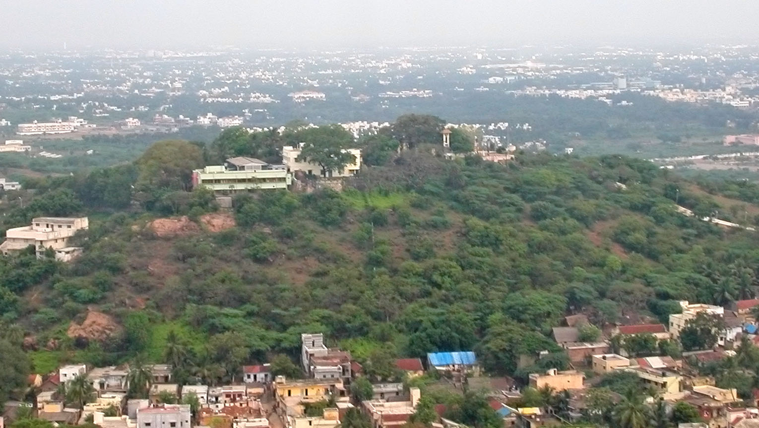 A view of the St. Thomas Mount Church (right) atop the hillock in Chennai